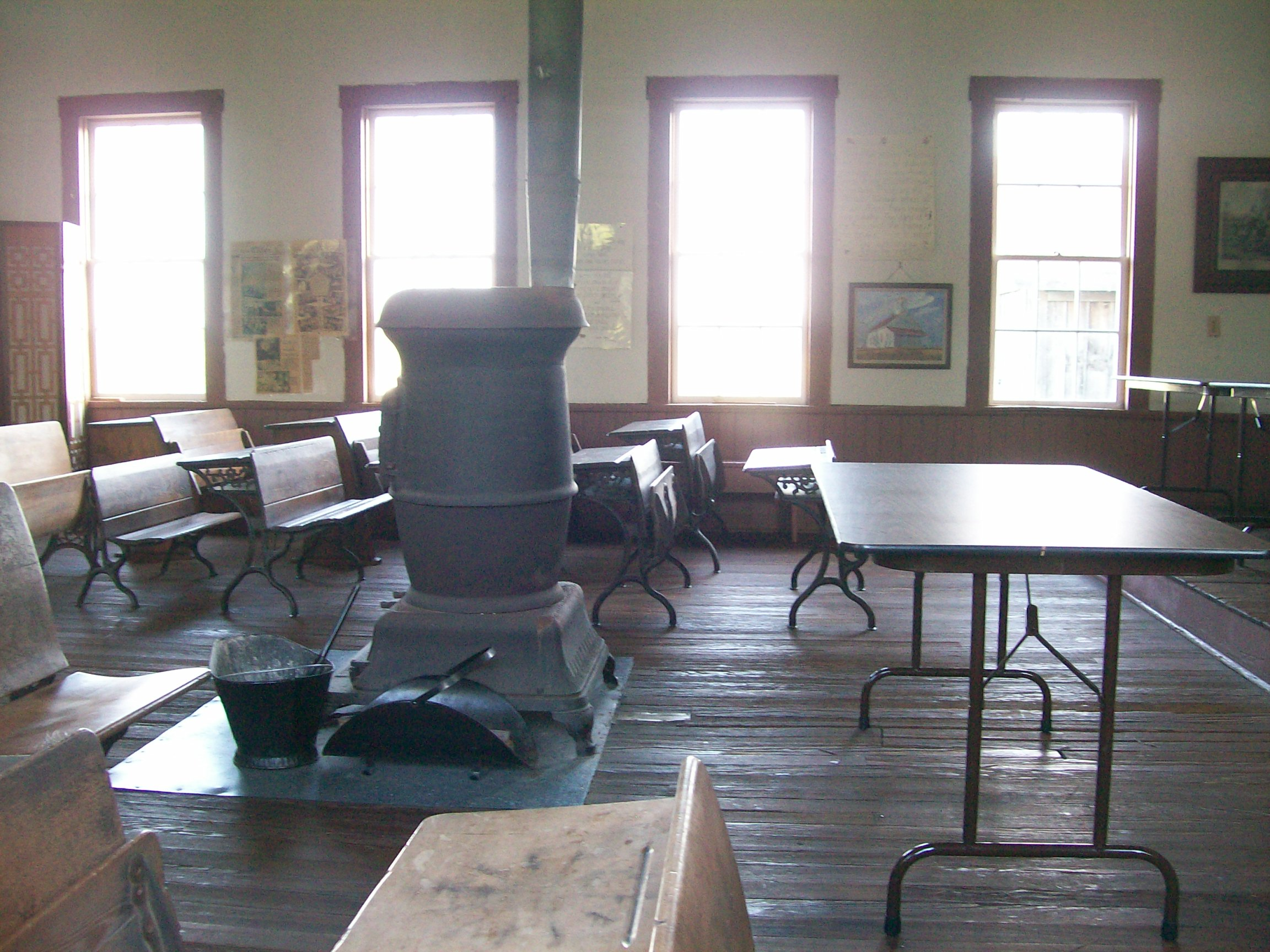 The interior of Ourant's School in Harrison County, Ohio